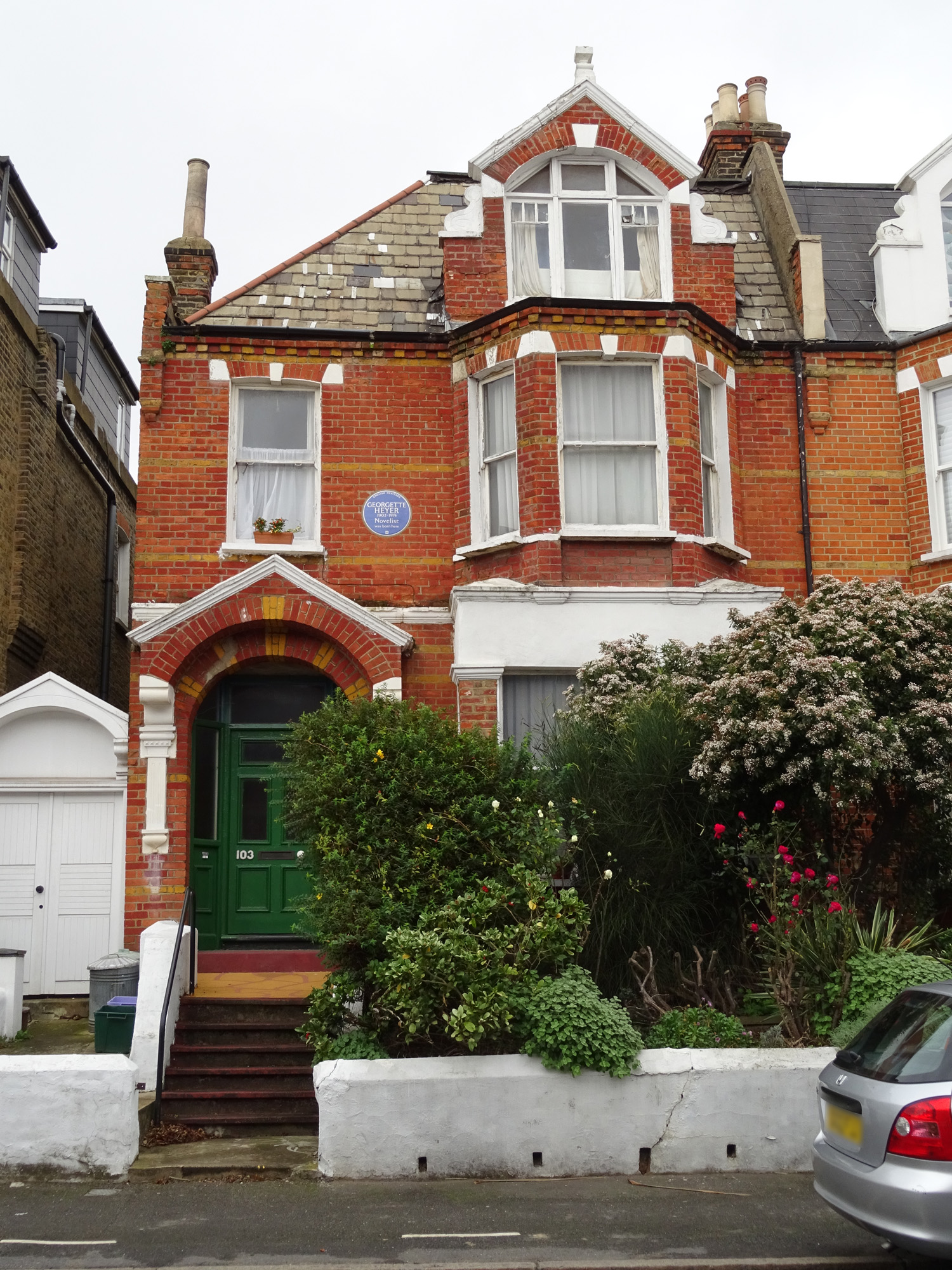 GEORGETTE HEYER 1902-1974 Novelist was born here - 103 Woodside Wimbledon London SW19 7BA